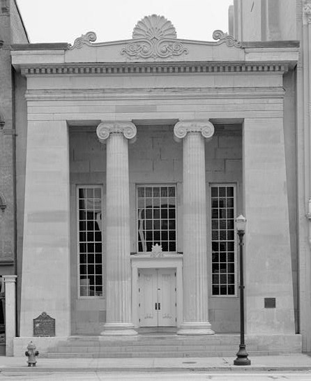 Bank of Louisville Building, 322 West Main Street, Louisville (Jefferson County, Kentucky)